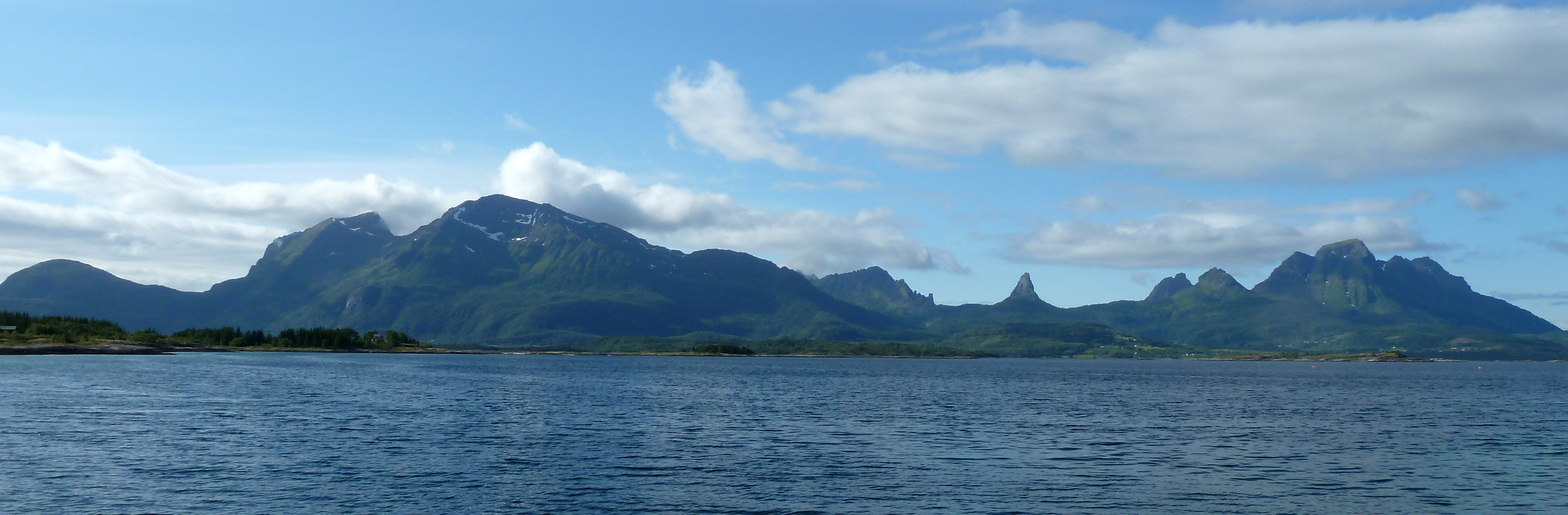 The mountain range Hamarøytindan seen from Finnøy on Finnøya.